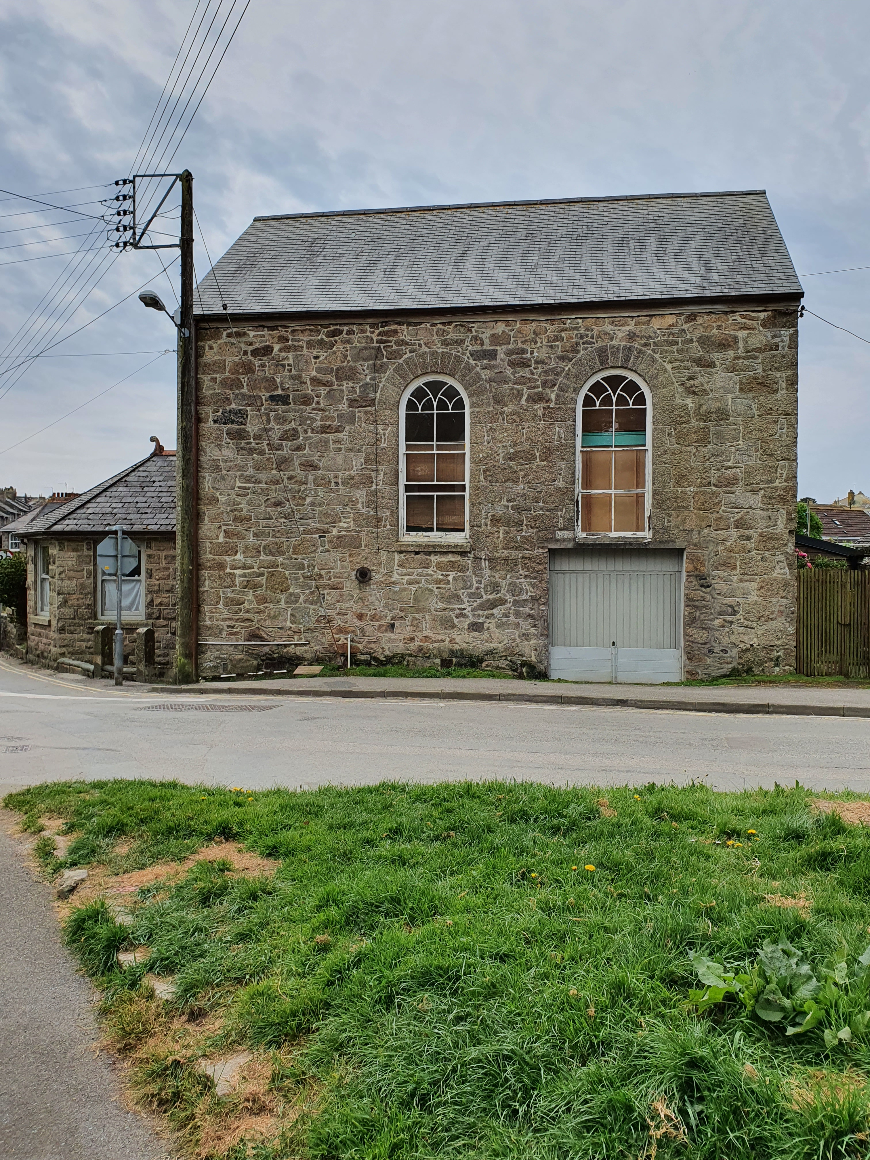 Polmennor Bible Christian Chapel (1866), Heamoor (on the northern side)